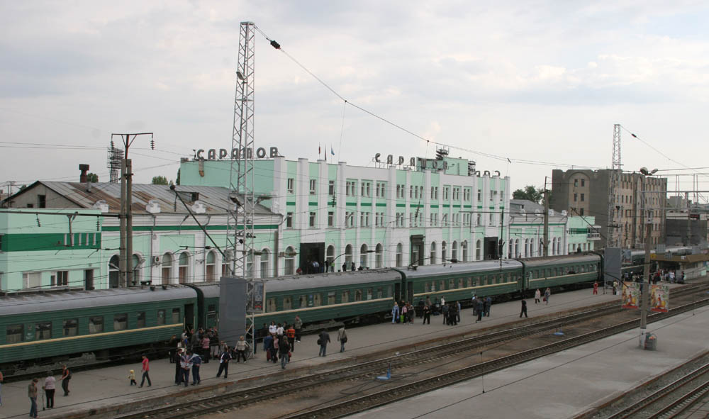 Saratov.